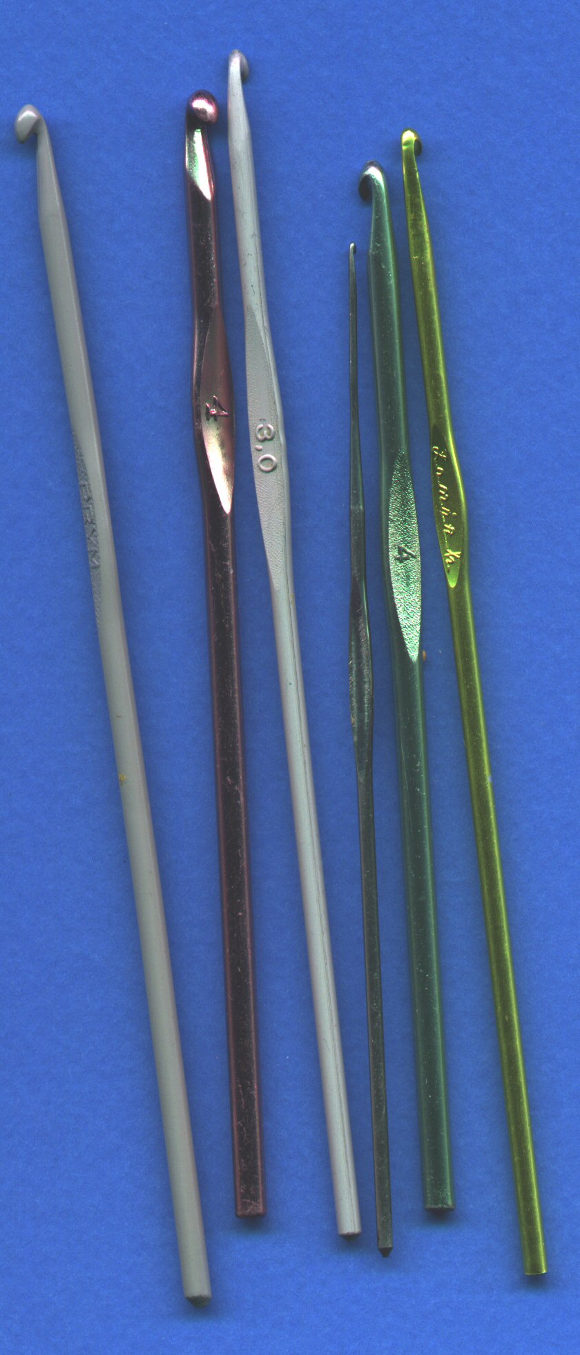 Crochet hooks